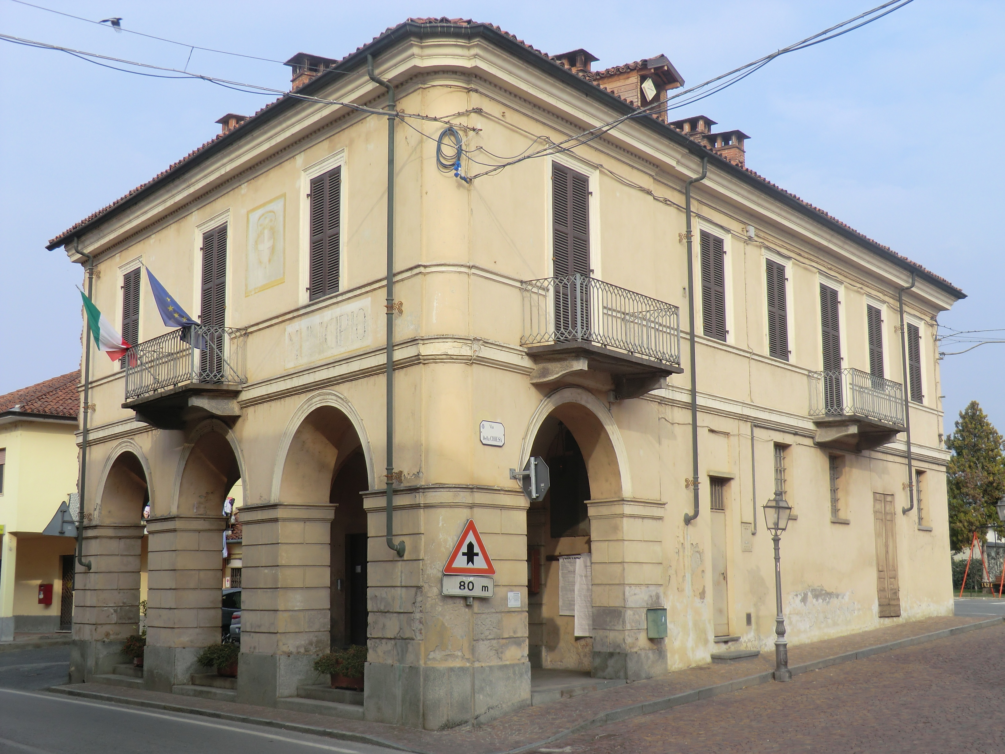 Murello (Cuneo - Italy): city all